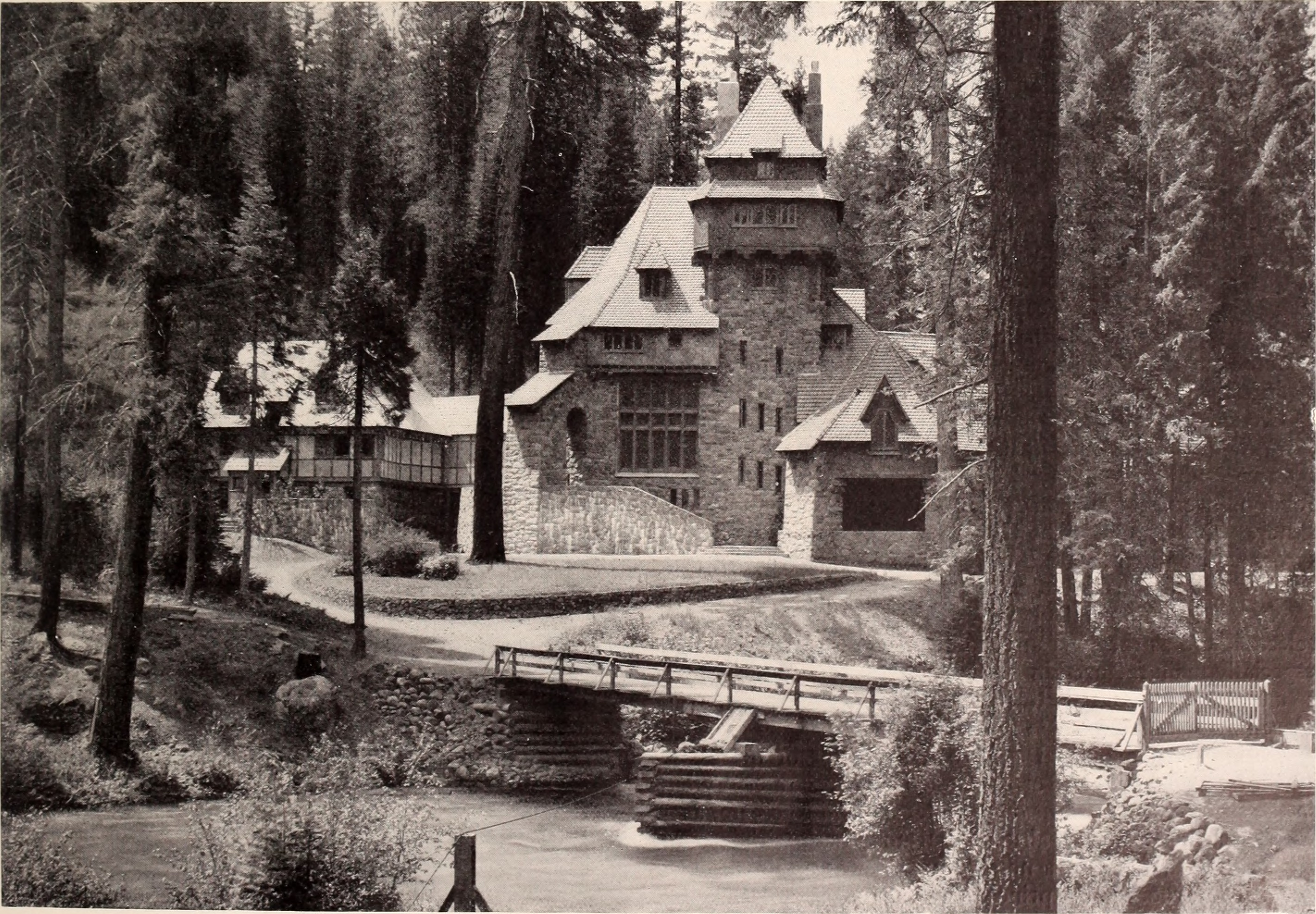 Title: American homes and gardens Year: 1905 (1900s) Authors: Subjects: Architecture, Domestic; Landscape gardening Publisher: New York, Munn and Co Text Appearing Before Image: The Great Living-Room, Eighty Feet Long and Thirty-Six Feet Wide, is Illuminated at One End by a Stained Glass Window of Thirteenth Century Design. The Room takes the Place of a Mediaeval Chapel; the Place of the Altar is Occupied by a Fireplace Text Appearing After Image: The Castle was Designed to Conform with the Site and to Harmonize with the Clusters of Giant Trees that Surround it. Crowning Walls on the Tower and Main Building, as well as Projecting Attics, were Necessary because of Heavy Snowfalls